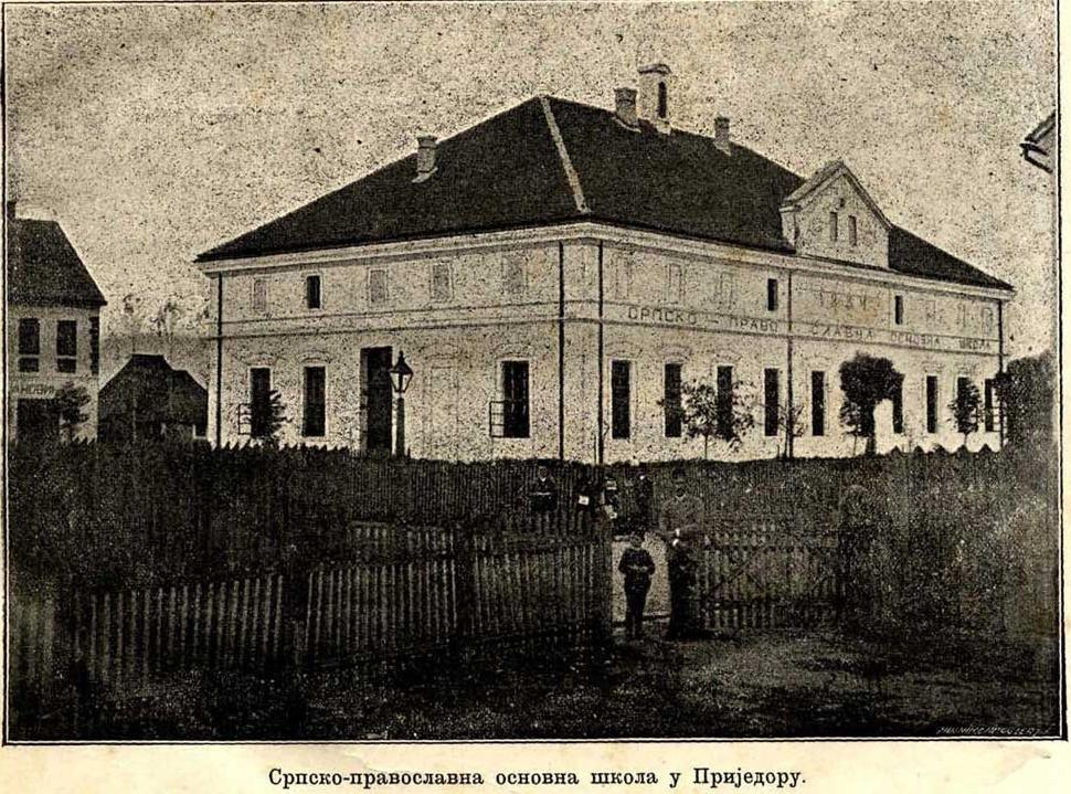 Serbian Elementary School in Prijedor photographed in 1889